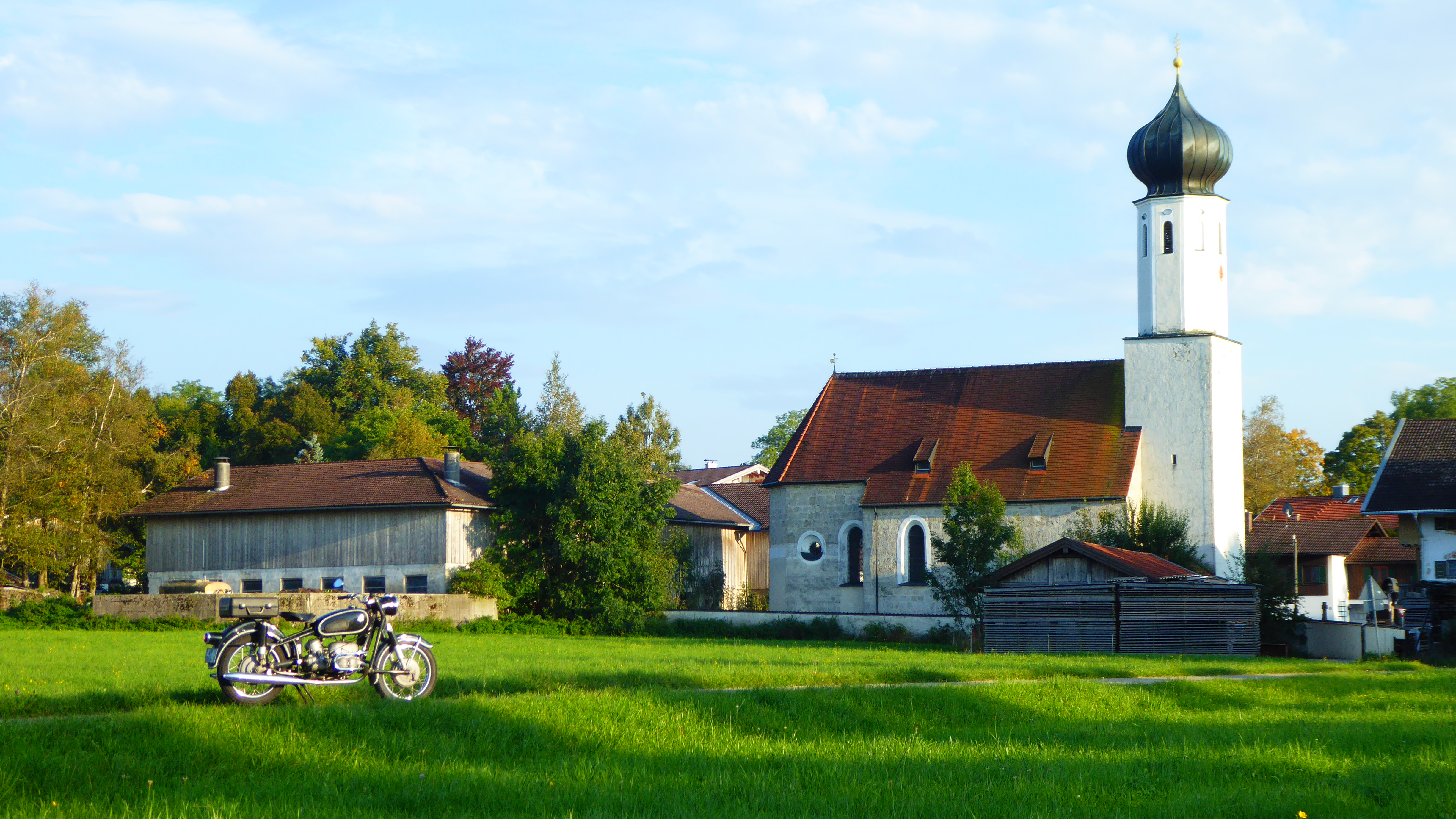 Church of St.Jacob in Piesenkam, Bavaria with classic baroc onionshaped roof of the tower, one of the oldest settlements of the area, mentioned as early as 818 a.Ch.This is a photograph of an architectural monument.